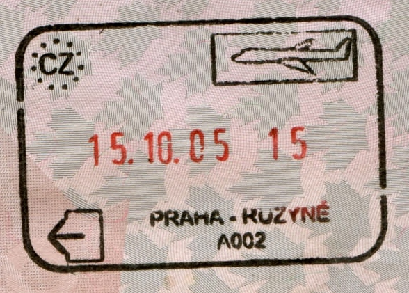 EU passport exit stamp from Prague's Ruzyně International Airport